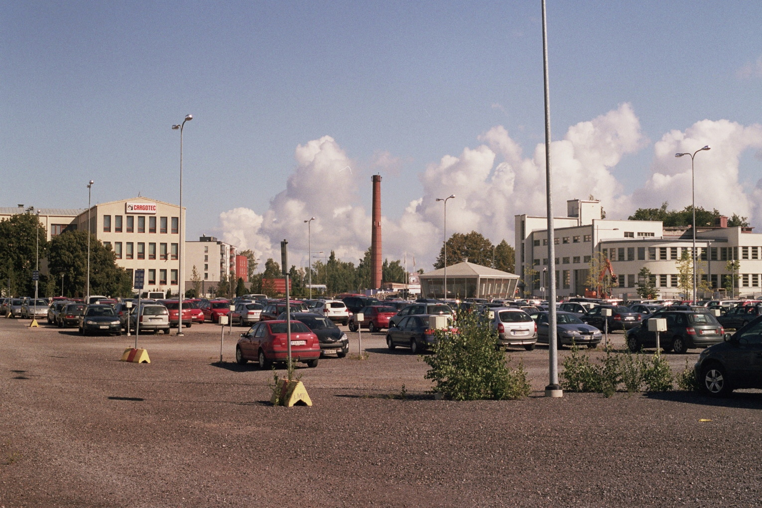 A view from a part of the area once occupied by the (Finnish) State Aircraft Factory in Härmälä, Tampere, Finland.